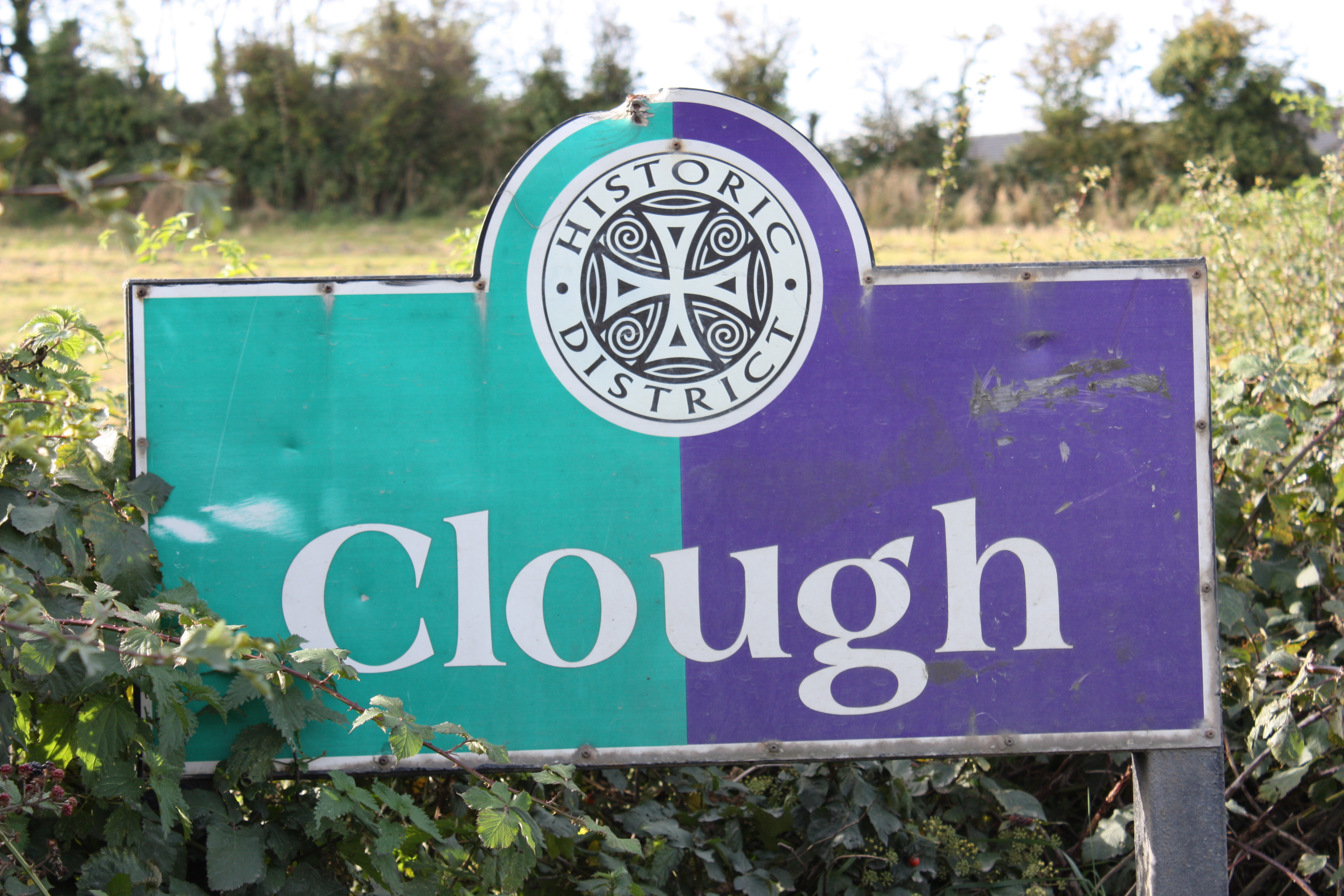 Sign (at entrance to Clough from Downpatrick direction), Clough, County Down, Northern Ireland, October 2009